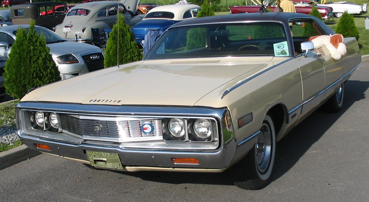 1971 Chrysler New Yorker photographed in Mont St. Hilaire, Quebec, Canada at the Auto classique VAQ Mont St-Hilaire.